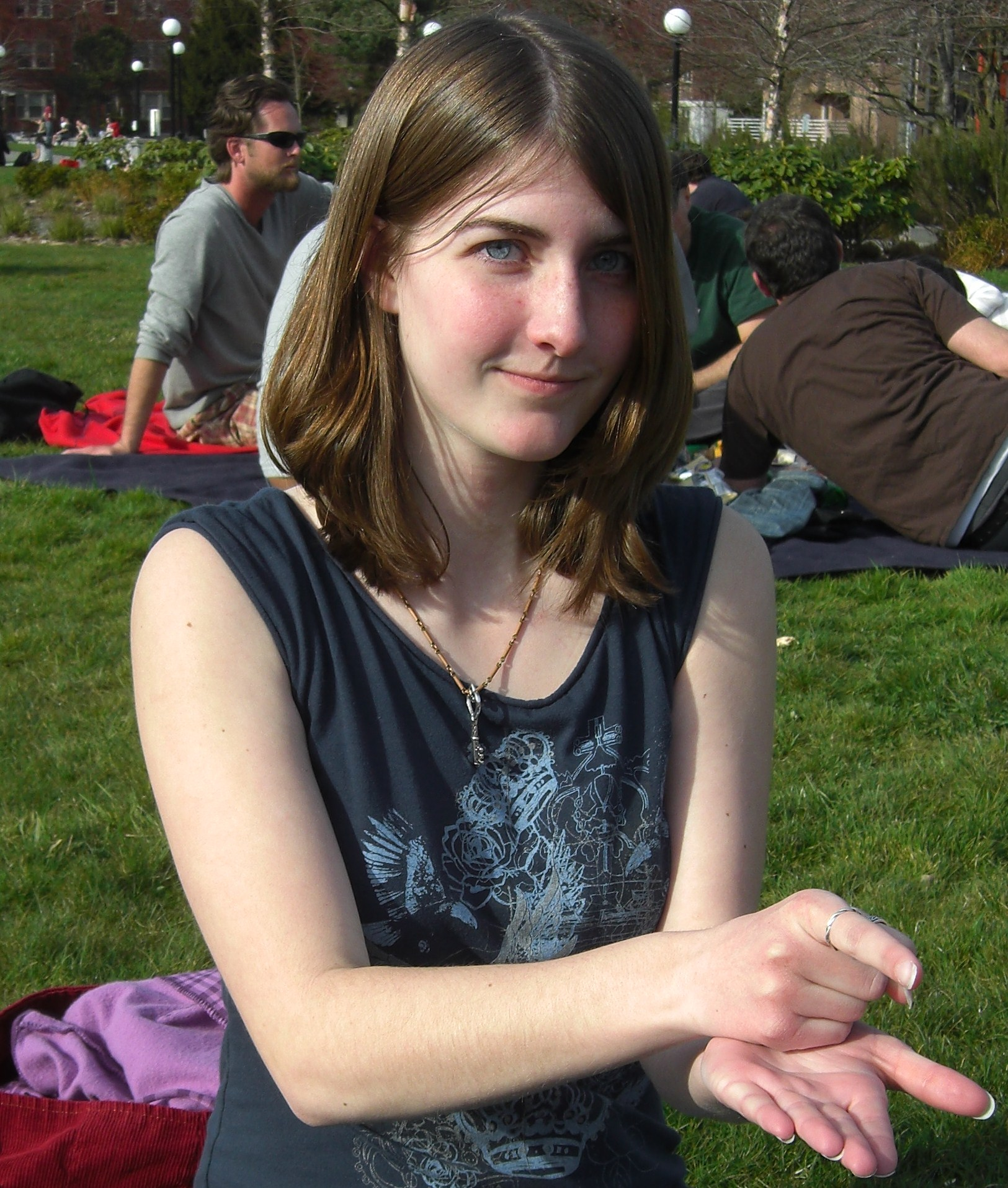 The second posture of the ASL sign FALL-IN-LOVE (en:1@Mouth-OpenB@CenterTrunkhigh-PalmUp RoundMidline 1@BasePalm-OpenB@CenterTrunkhigh-PalmUp RoundMidline 1@TipPalm-OpenB@CenterTrunkhigh-PalmUp)